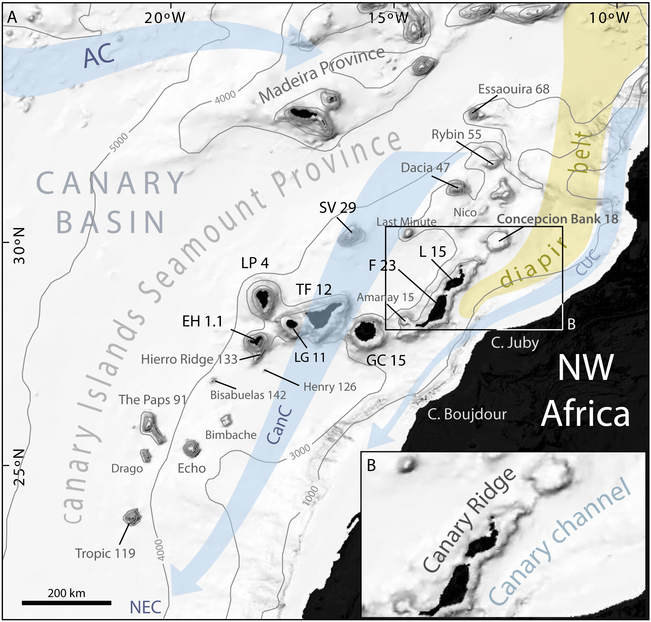 Fig 1. General bathymetric map of the Canary Islands Seamount Province (CISP).Note the seamounts, islands and other relevant physiographic features as well as the regional surface current system. The Canary Basin, the Canary Ridge, the Canary Channel and its diapir belt extending northwards are indicated. Numbers attached to seamounts and islands represent individual oldest age estimate where available, after Van den Bogaard [28]. AC: Azores Current. CC: Canary Current. CUC: Canary Upwelling Current. NEC: North EquatorialCurrent. SV: Selvagens. L: Lanzarote. F: Fuerteventura. GC: Gran Canaria. TF: Tenerife. LP: La Palma. EH: El Hierro. Bathymetry in meters from GEBCO.